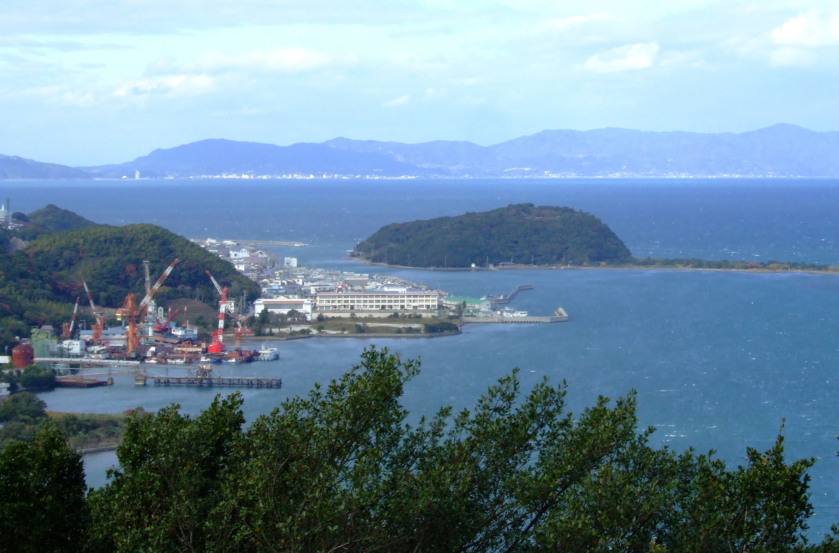 Port of Yura in Awaji-shima(island), Japan.